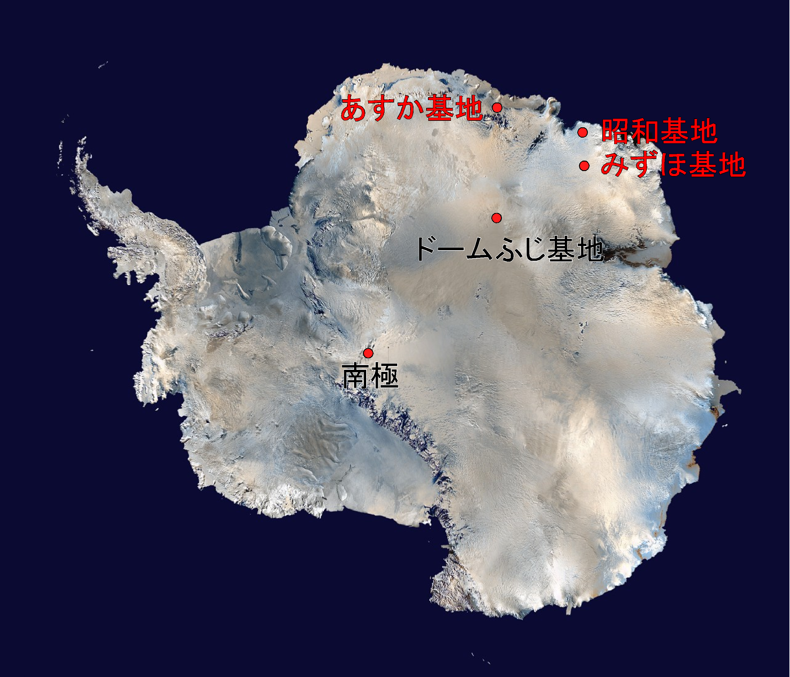 Antarctic bases of Japan